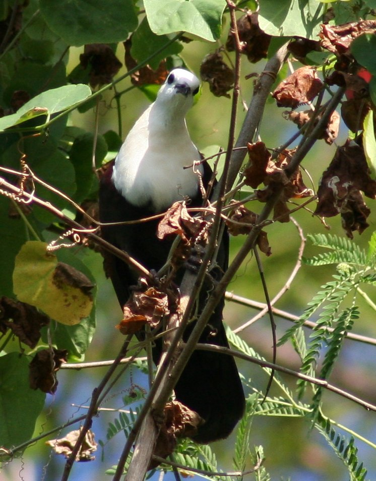 White Throated Ground Dove Gallicolumba xanthonura, Saipan